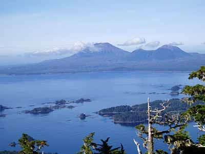 US Forest Service photo of Mount Edgecumbe, Alaska, USA, as seen across Sitka Sound.